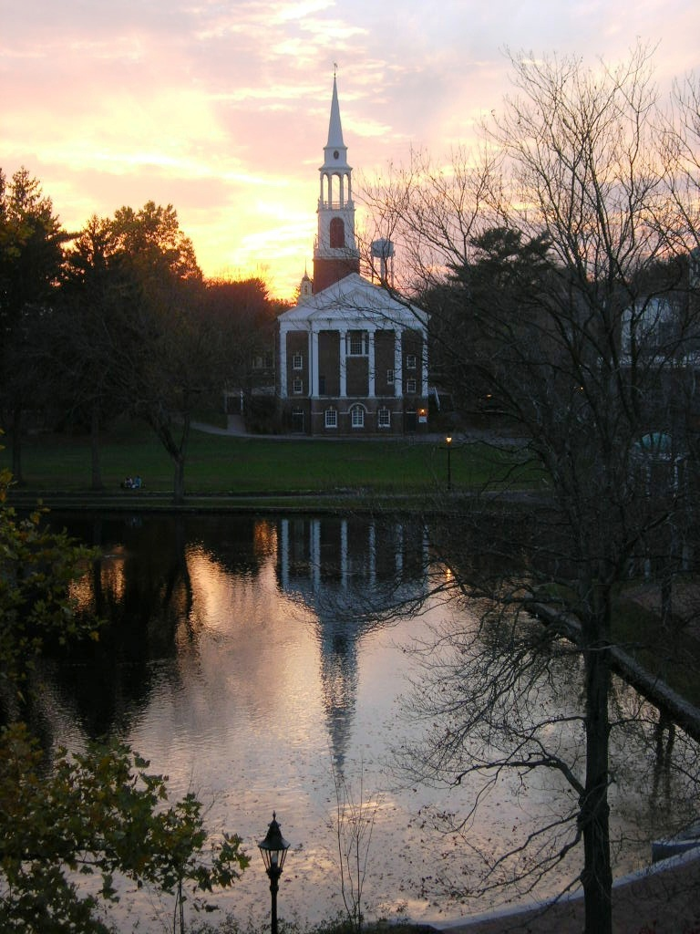 Sunset behind the chapel at Wheaton College MA